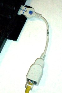 A typical PCMCIA card dongle. Copyright 2004 David Gerard.